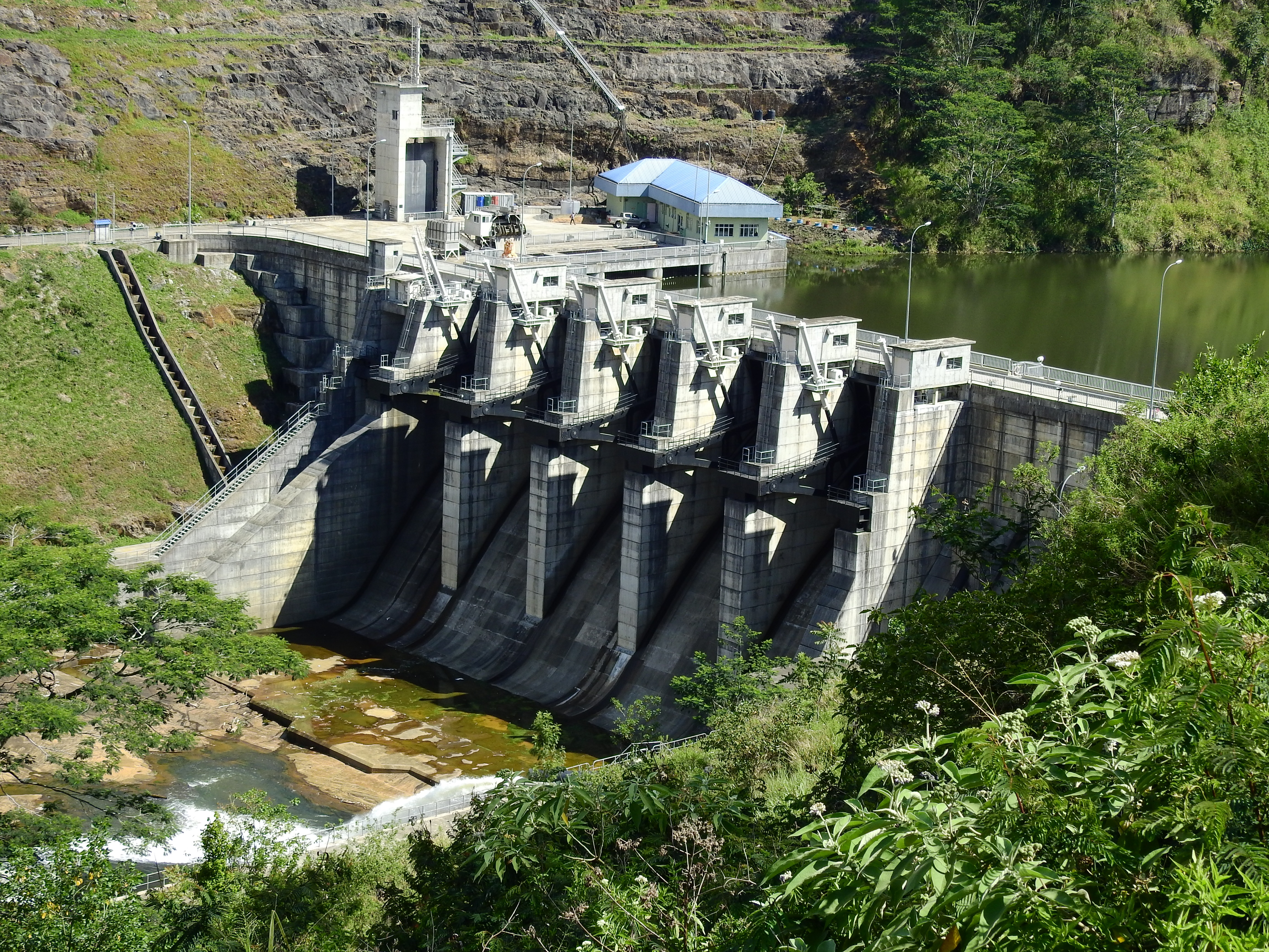 This photo was taken as part of a photo project by Wikimedia Community User Group Sri Lanka, covering current/future hydroelectric dams (and its surroundings) in the Central and Sabaragamuwa provinces of Sri Lanka. User:Rehman handled the photography, while User:Azeez and User:PasinduBR handled the logistics/planning of routes. Description of photo: Upper Kotmale Dam. Further information on the subject(s) of the photograph may be found in the category/ies of this file.